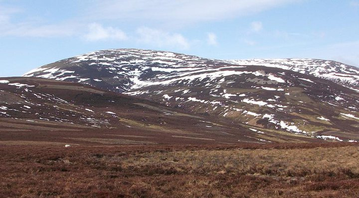 The Cheviot, Northumberland - April 2010. Photo by BScar23625